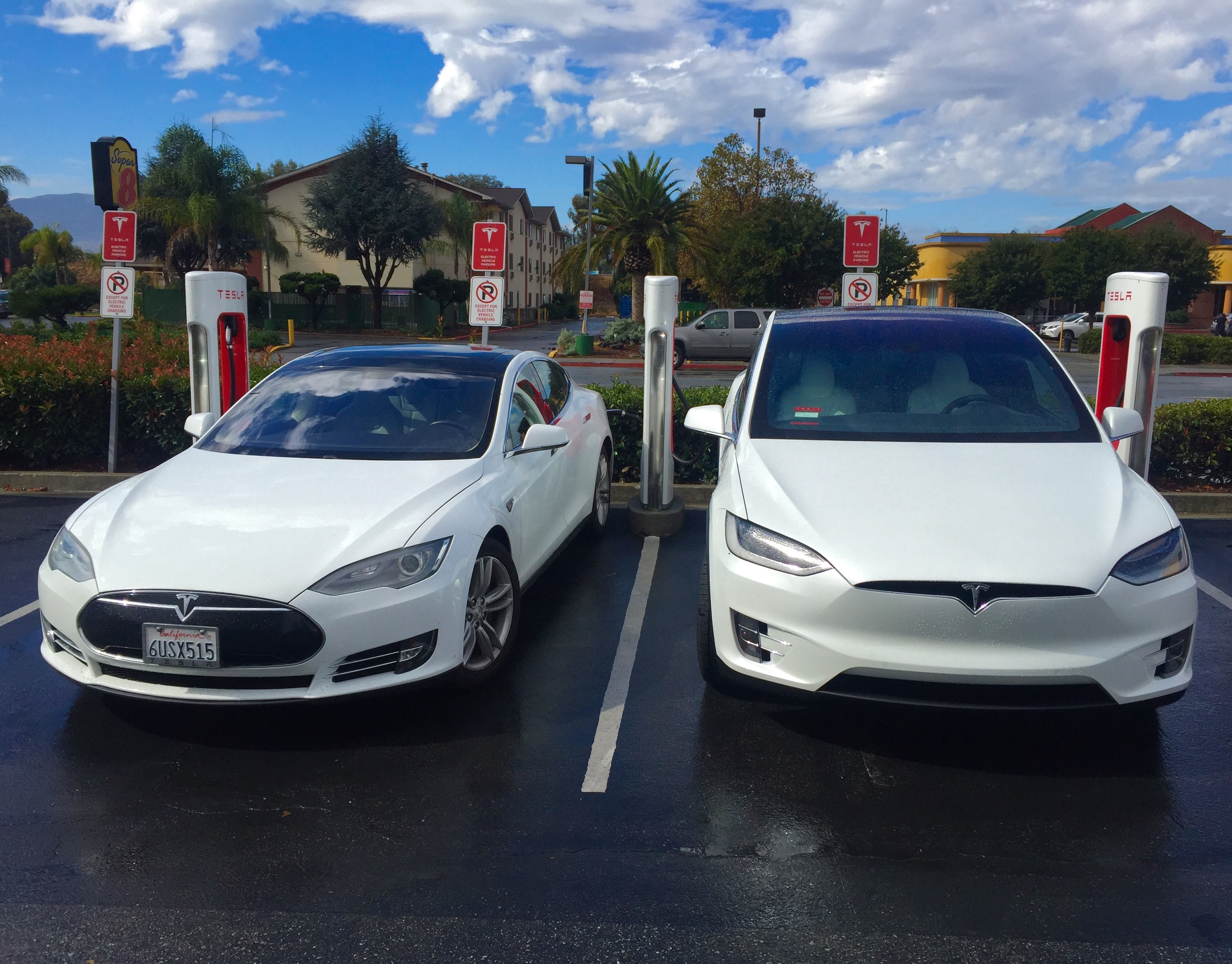 Tesla Model S and Model X side by side at the Gilroy Supercharger, California